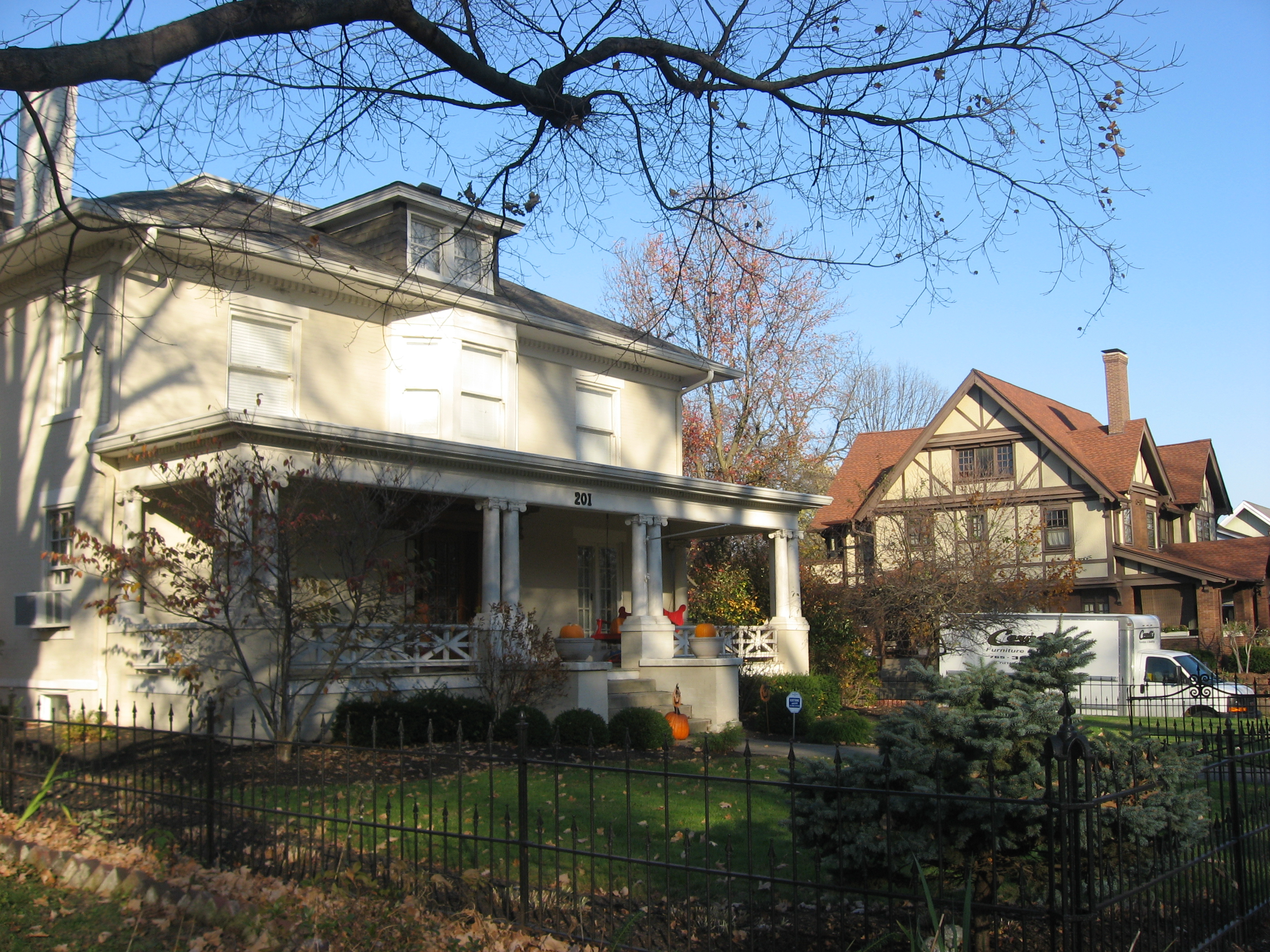 Houses in the 100 block of S. Wallace Avenue in Crawfordsville, Indiana, United States. Located on the western side of the street, they are part of the Elston Grove Historic District, a historic district that is listed on the National Register of Historic Places.